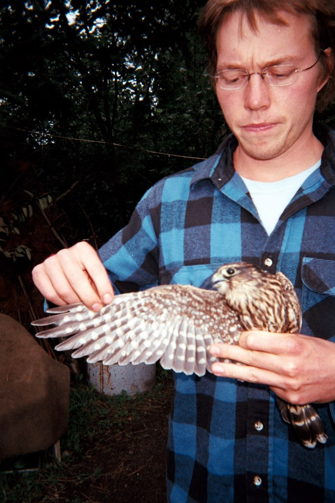 Sam shows a Sharp-shinned Hawk wingspan at Hawk Ridge, Duluth